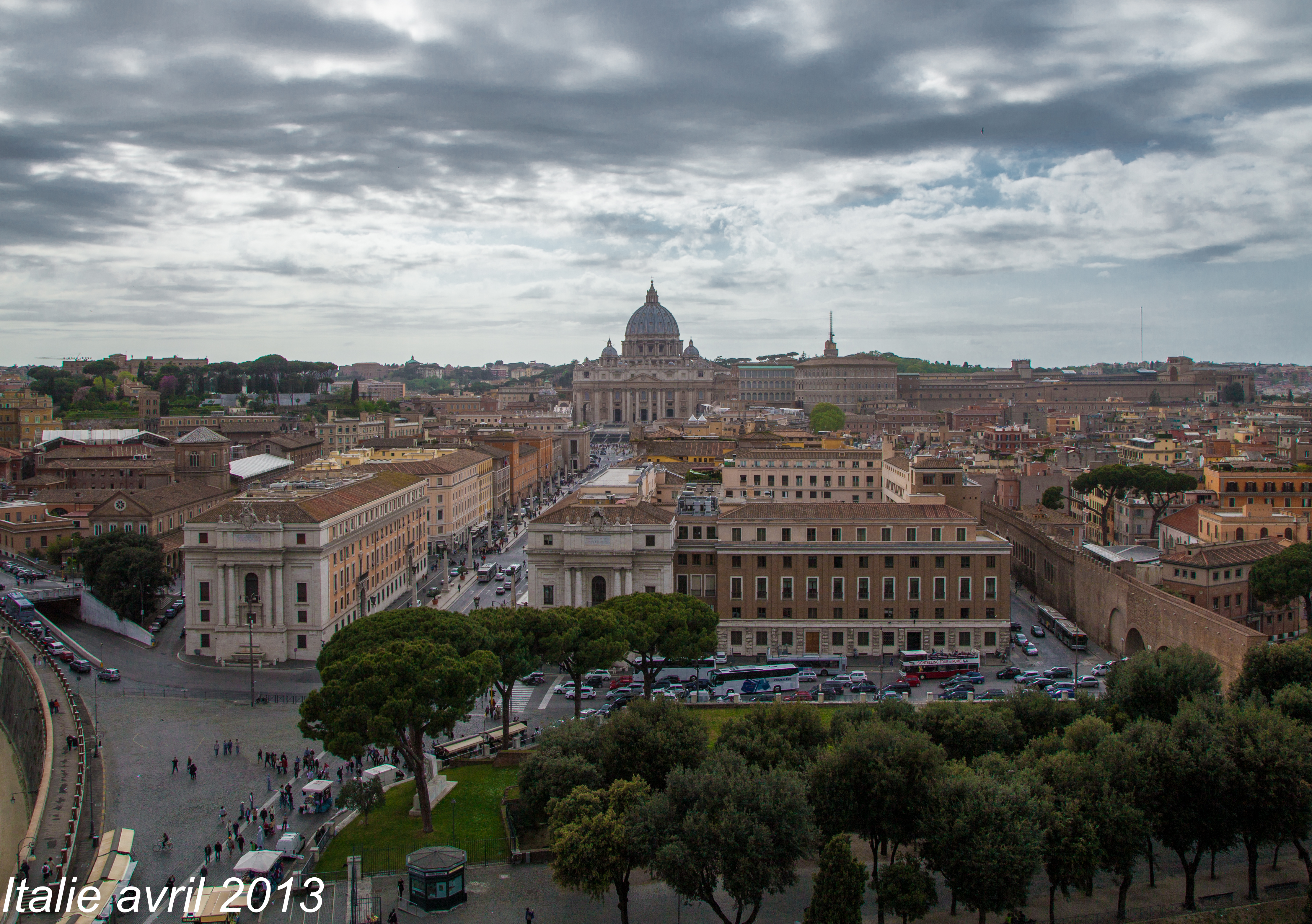 Le Vatican - Photo Image Photography